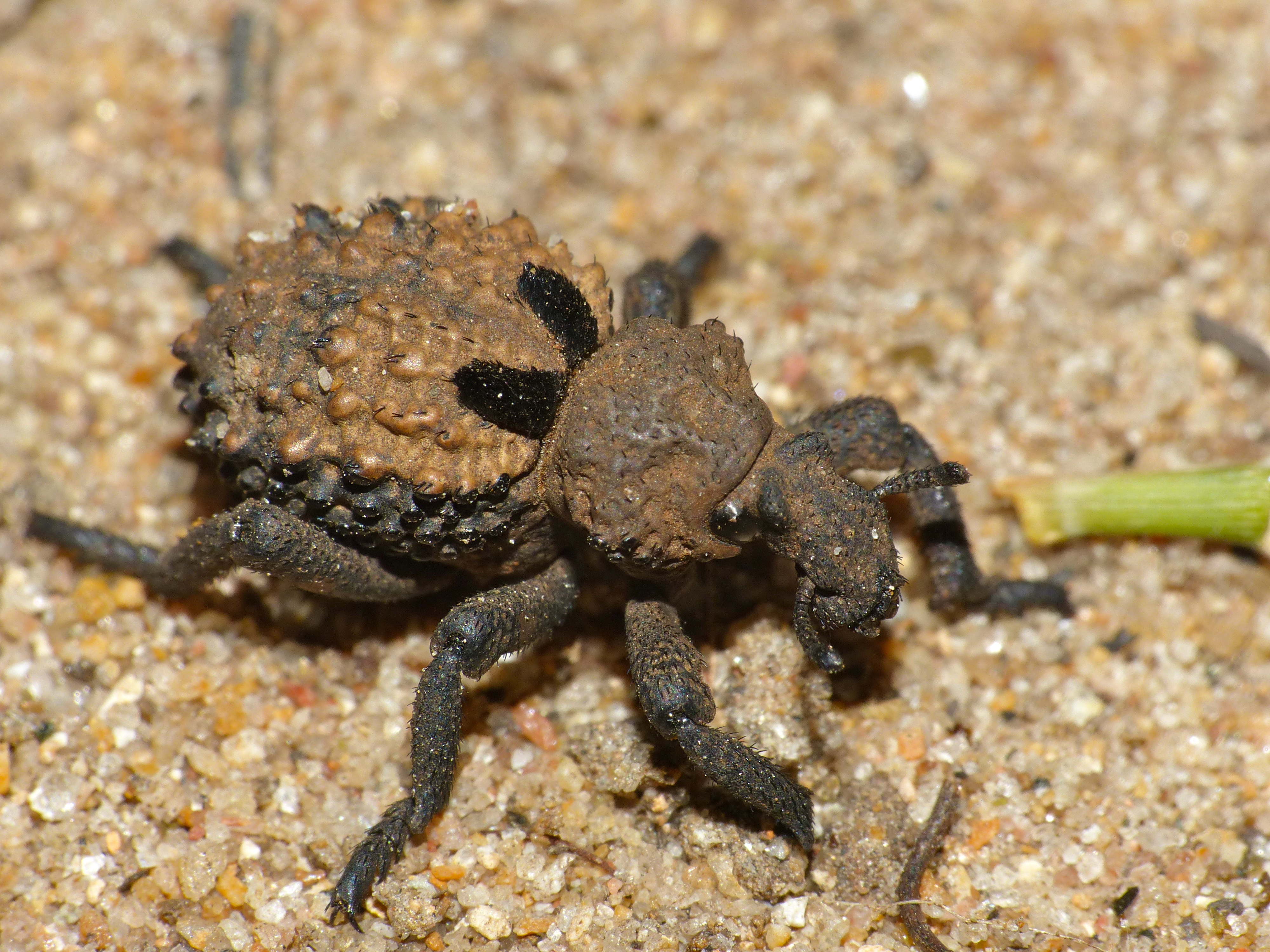 Tamboti Tented Camp, Kruger NP, SOUTH AFRICA